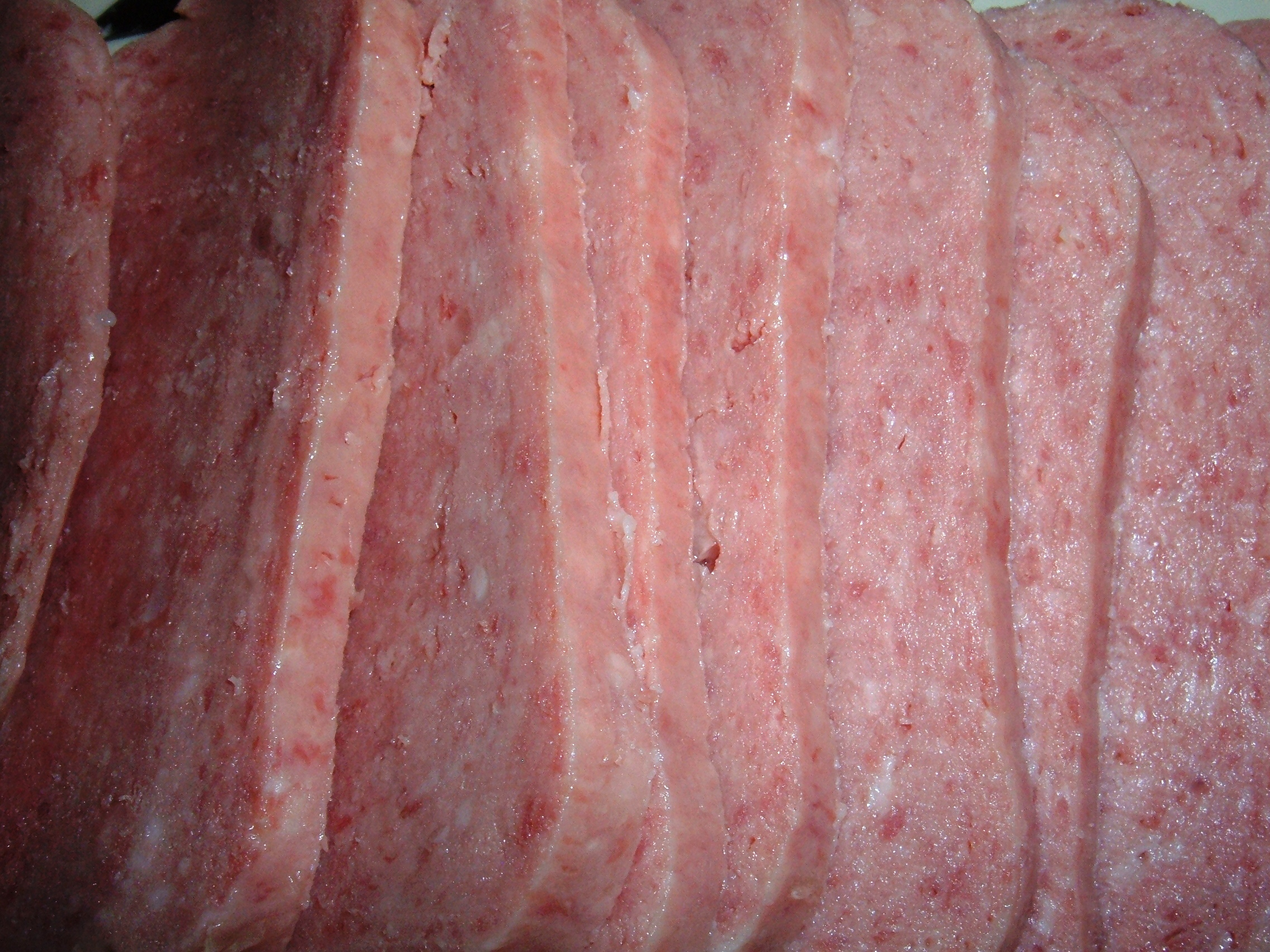 Sliced Spam